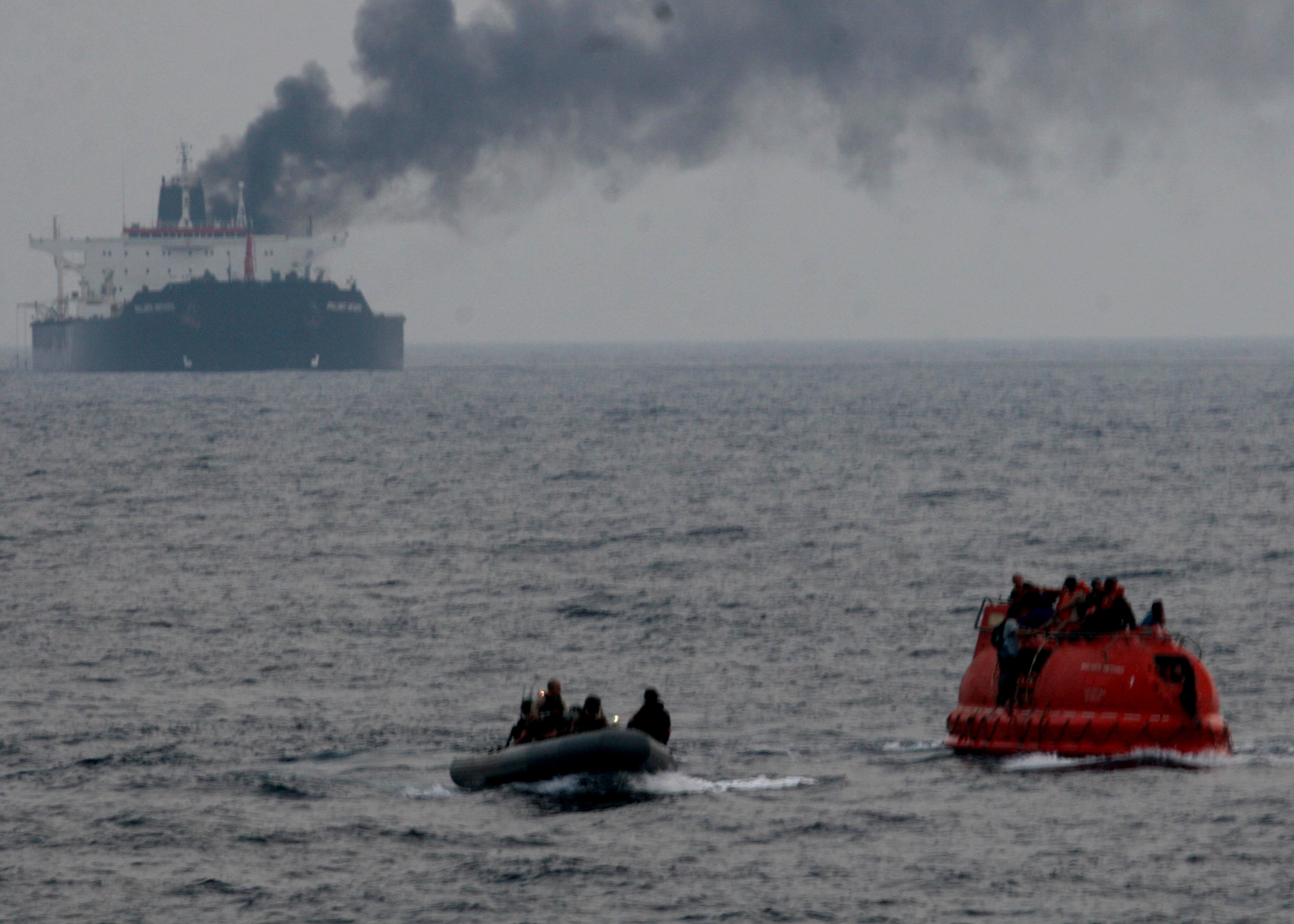 GULF OF ADEN (July 6, 2011) Sailors assigned to the guided-missle cruiser USS Philippine Sea (CG 58) approach a life boat to rescue crew members from the Liberian-flagged motor vessel MT Brilliante Virtuoso. The crew of Brilliante Virturoso abandoned ship due to a fire aboard the vessel. (U.S. Navy photo by Chief Intelligence Specialist Raynald Lenieux/Released)